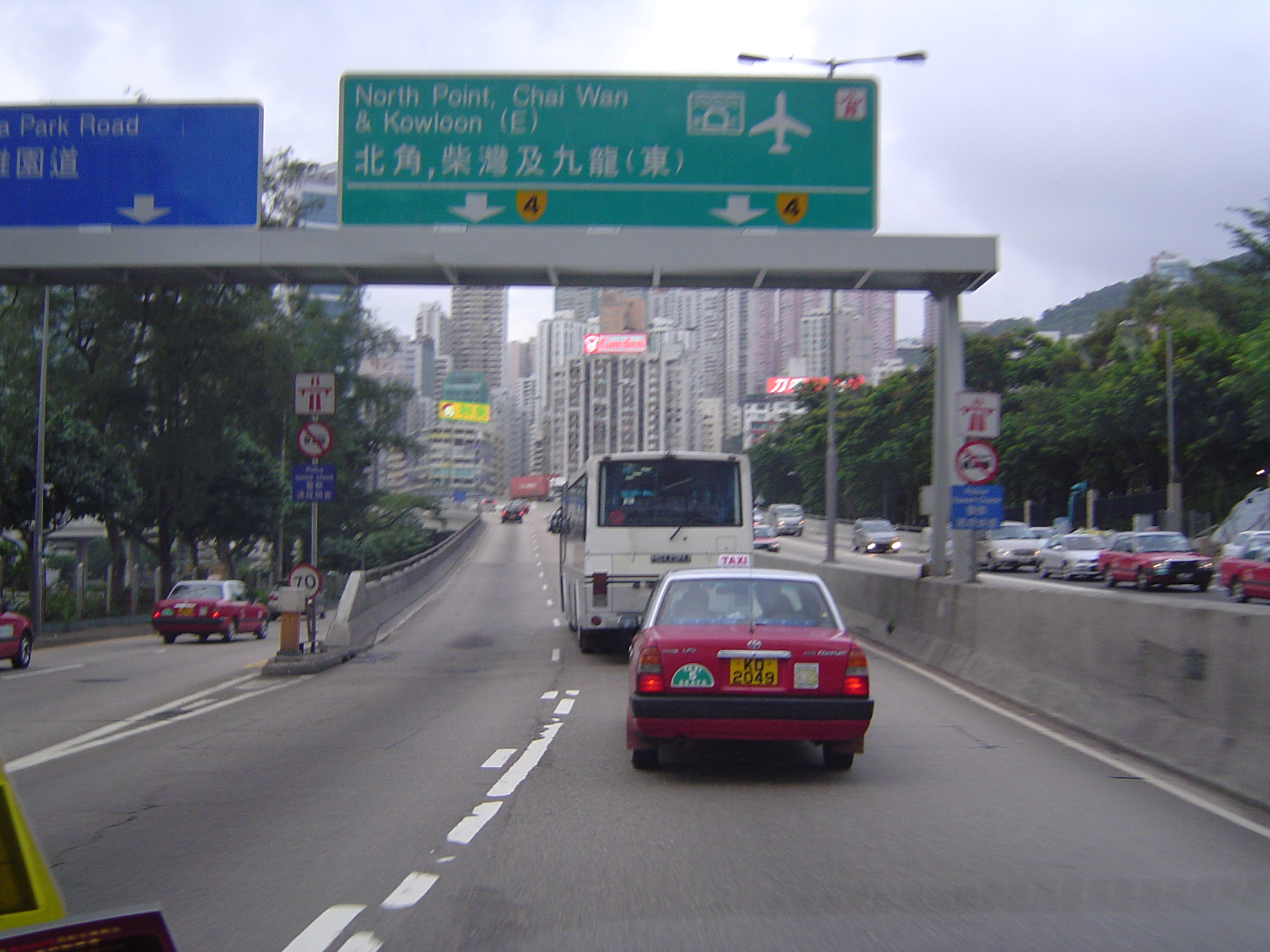 The west end of Island Eastern Corridor at Causeway Bay On the right: Victoria Park On the left: Causeway Bay Typhoon shelter In the background: buildings of Tin Hau area